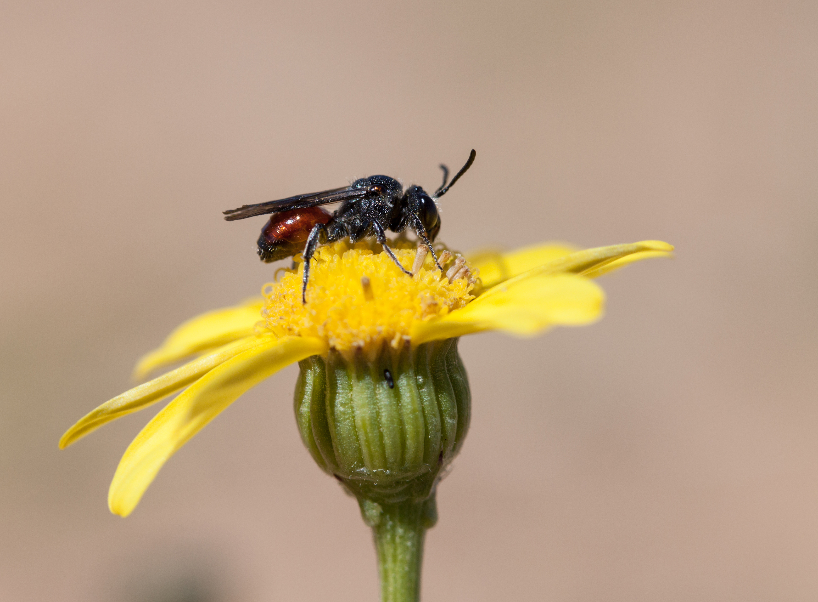 Sphecodopsis sp., photographed at Sandveld Nature Reserve, South Africa.